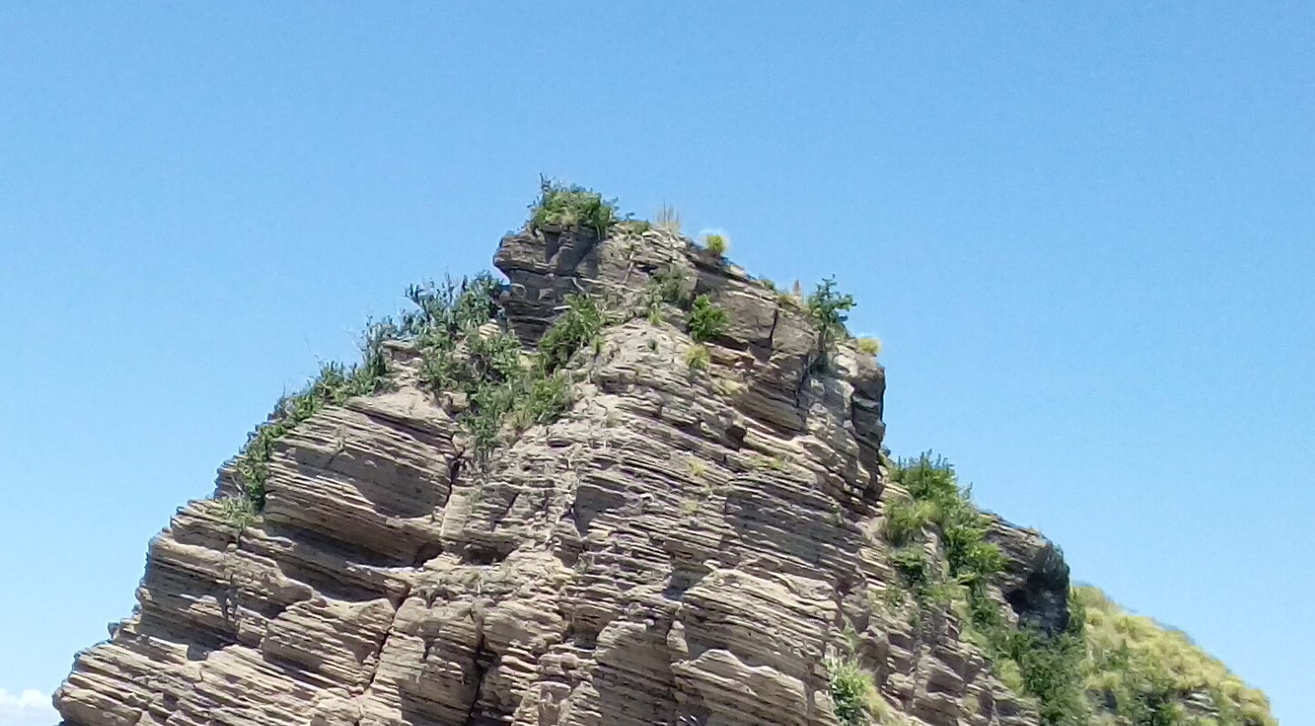 Animasola Island in Burias Masbate